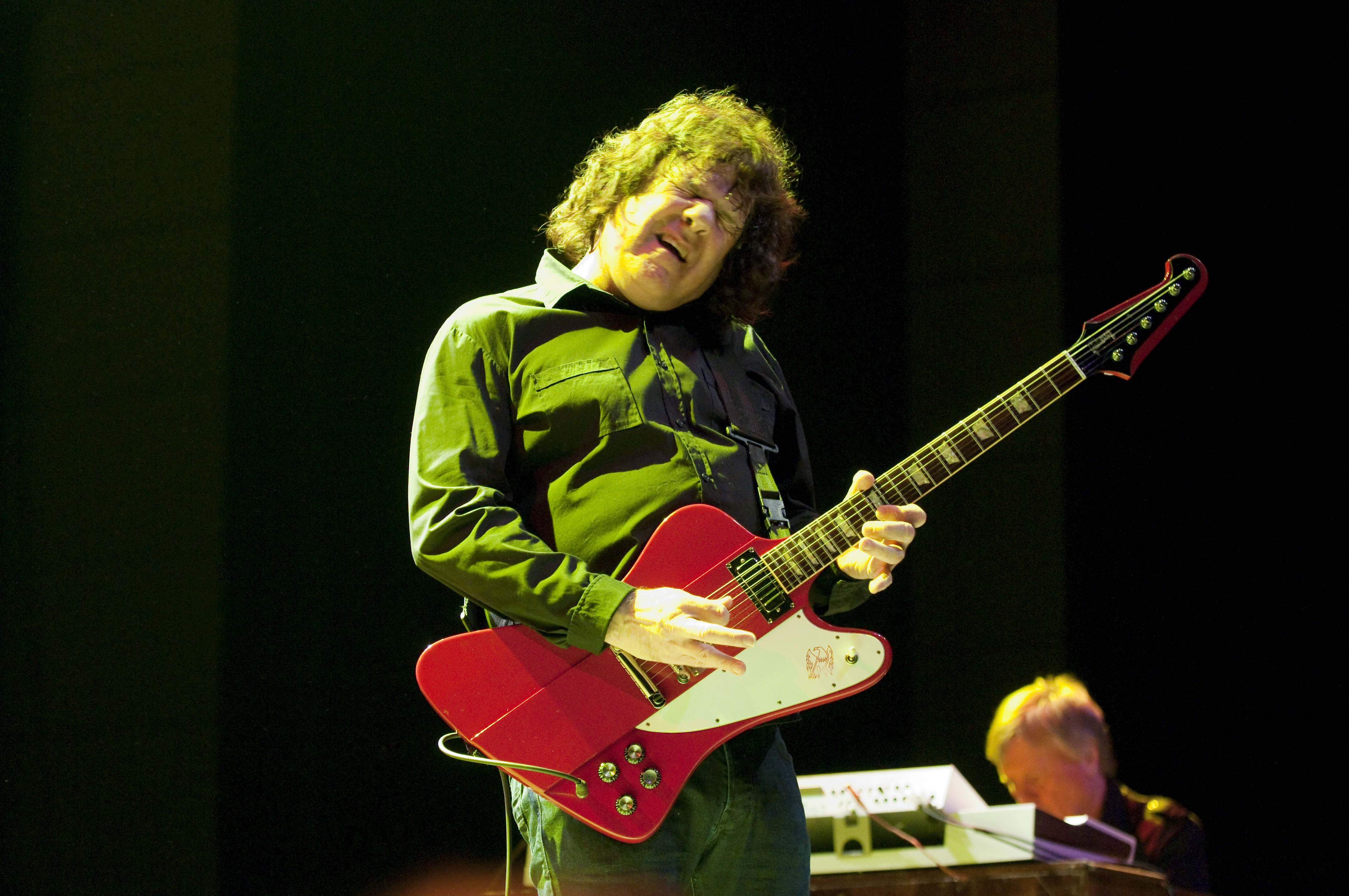 Gary Moore